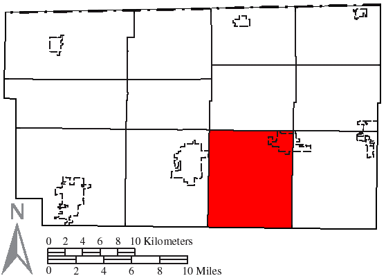 Made by the US Census and modified by myself